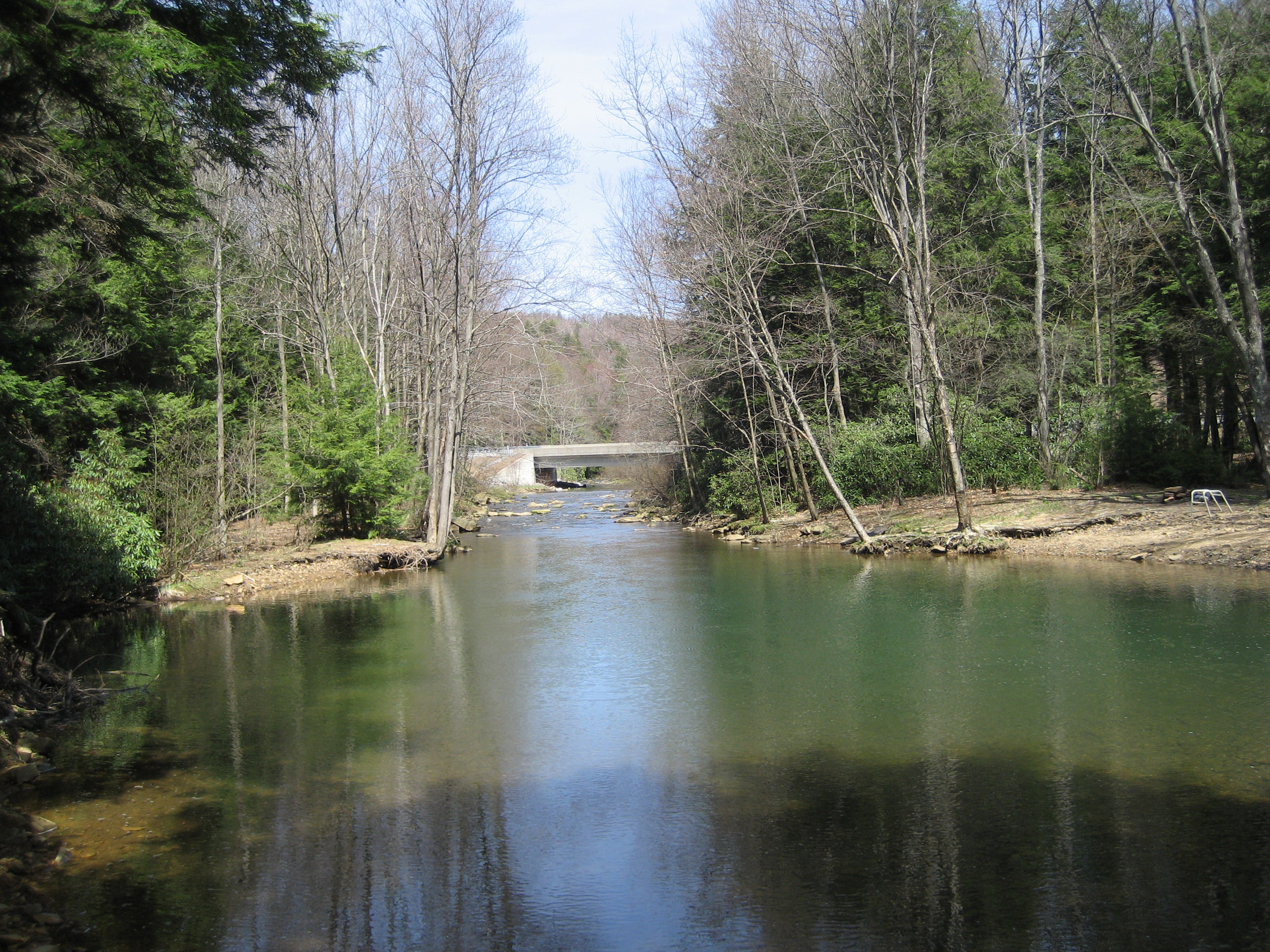 Brown Springs, Moshannon State Forest, Anderson Creek near Brown Springs Road. The bridge is for US 322, in Union Township, Clearfield County, PA. Near Rockton, Pennsylvania